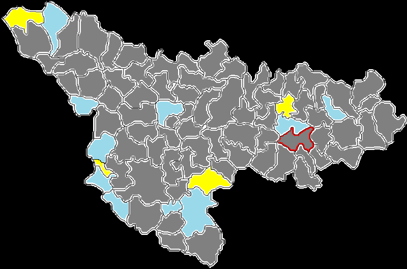 Hungarian minority in Timiș County (Romania), according to the 2011 census, by communes (yellow = hungarian minority over 20%, blue = hungarian minority between 10 - 20%, grey = hungarian minority under 10%).